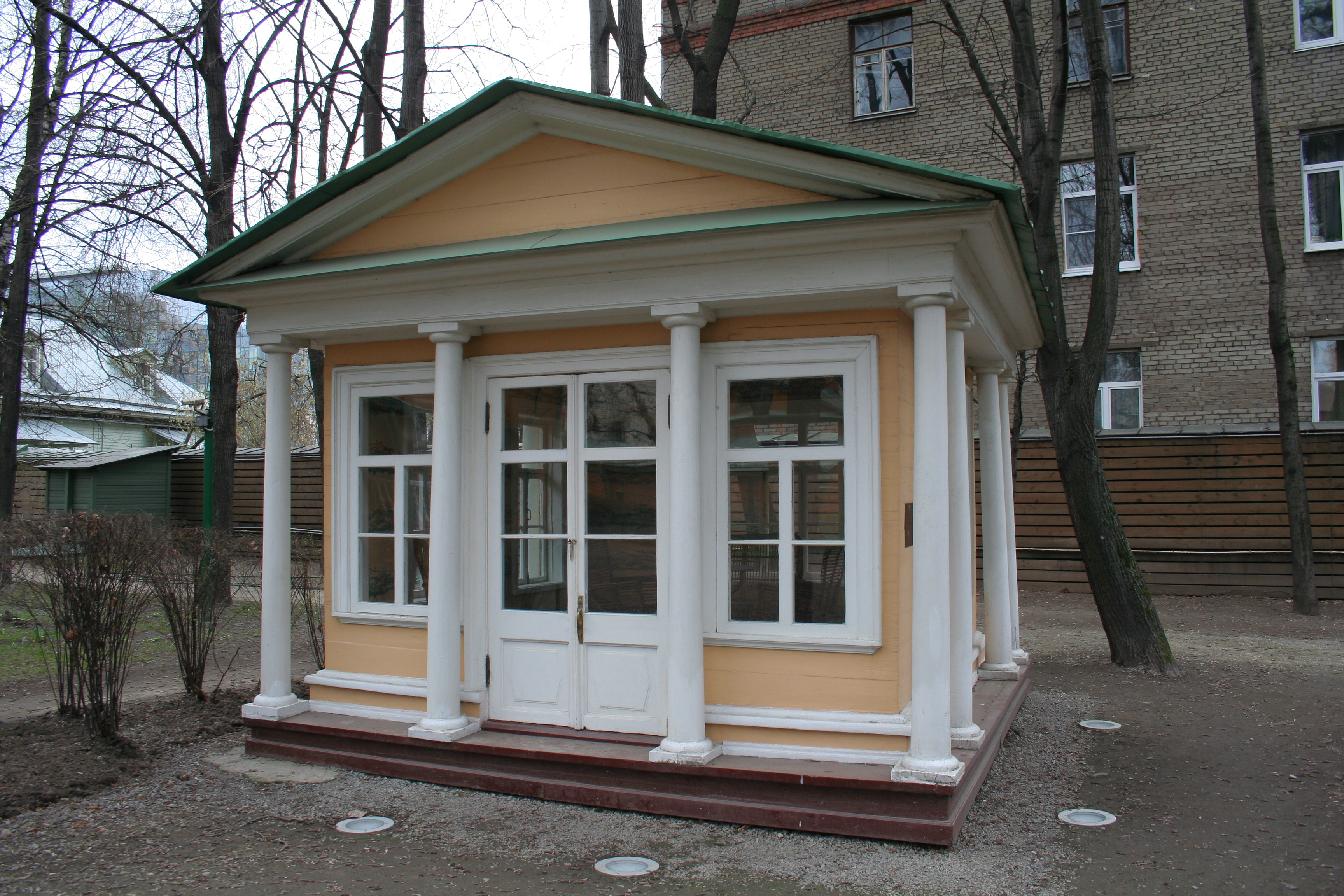 Memorial Museum-Estate of Leo Tolstoy "Khamovniki". Farmland garden. Former tea house.